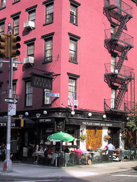 Photo from New York Habitat. (Photography). Pete's Tavern in Gramercy Park, Retrieved Sepermber 8,2001.